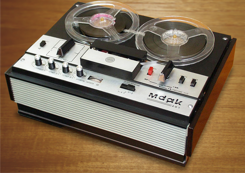 USSR (Ukraine) “Mayak-201” tape recorder 1971. Four-track mono, three speeds.